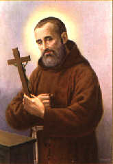 Saint Bernard (Corleone)